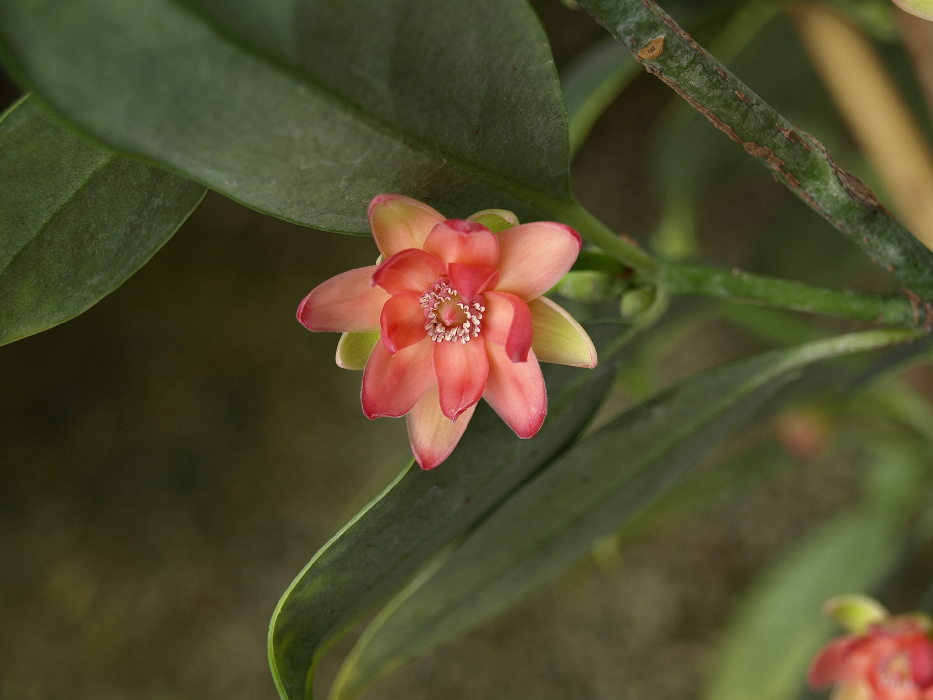 Biology Dept. greenhouse, Florida International University, Miami, Florida, USA.